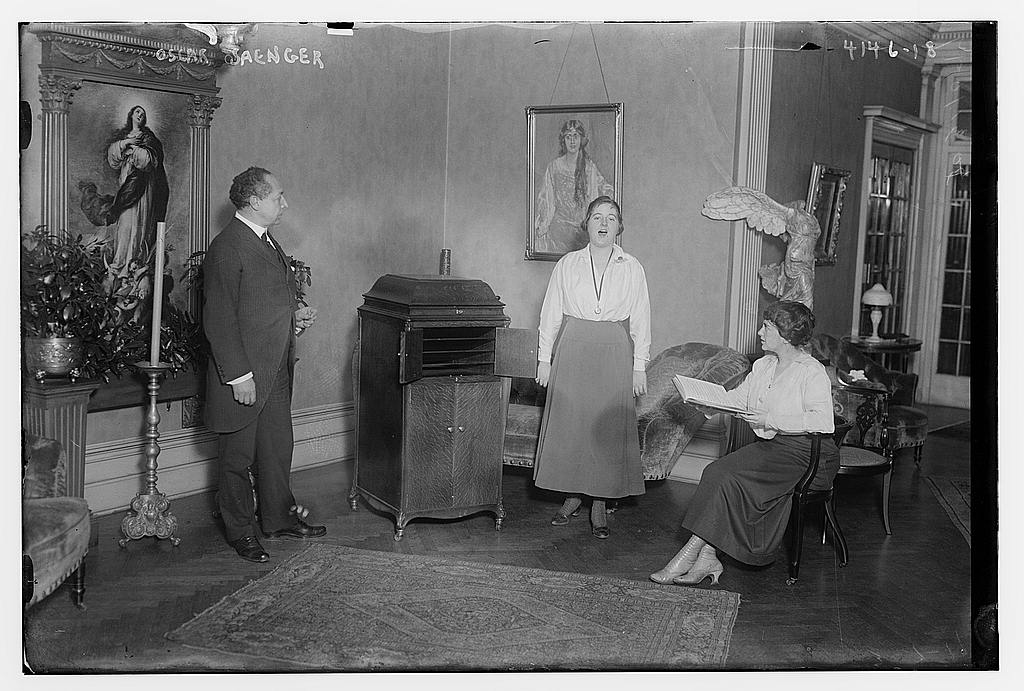 Oscar Saenger (1868-1929) in 1917 standing